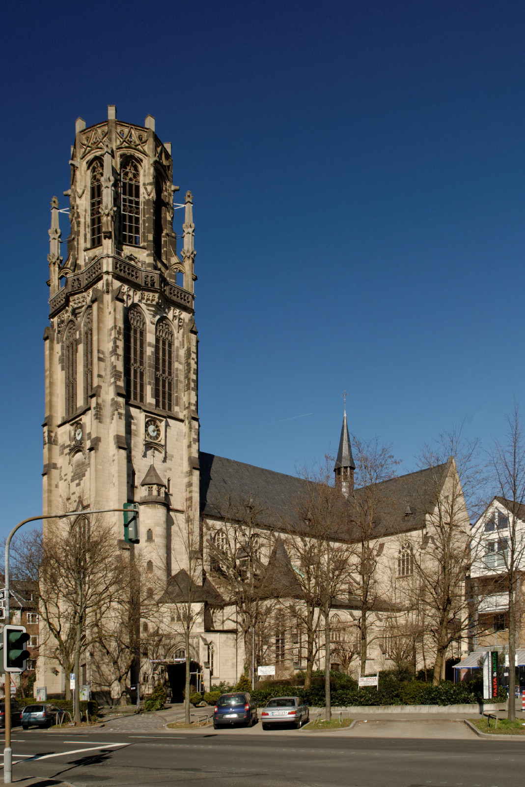 Herz-Jesu-Kirche, Roßstraße 79 in Düsseldorf-Derendorf, Germany This is a photograph of an architectural monument.